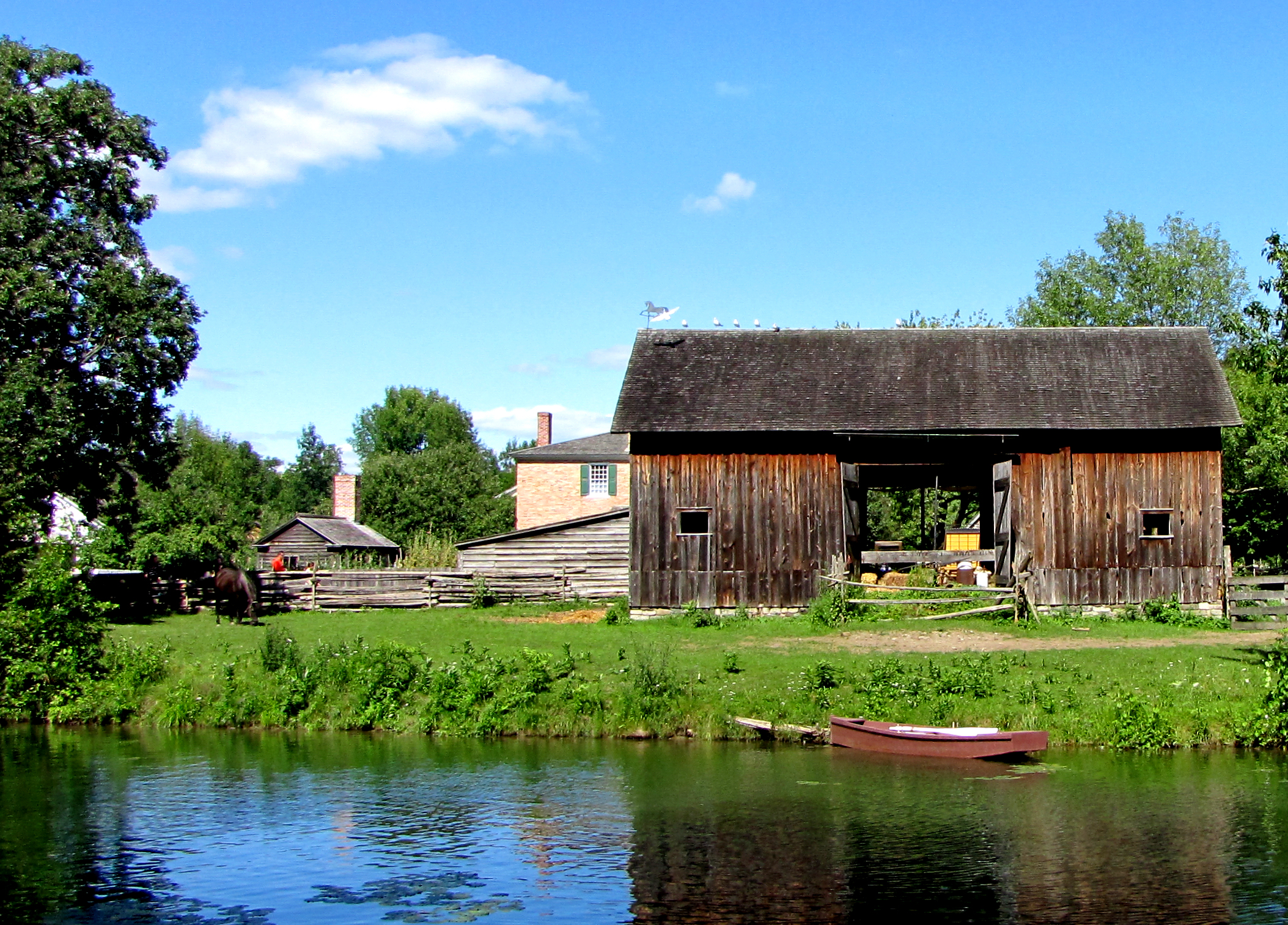 Cook's Tavern (in background) and livery, Upper Canada Village, Ontario, Canada